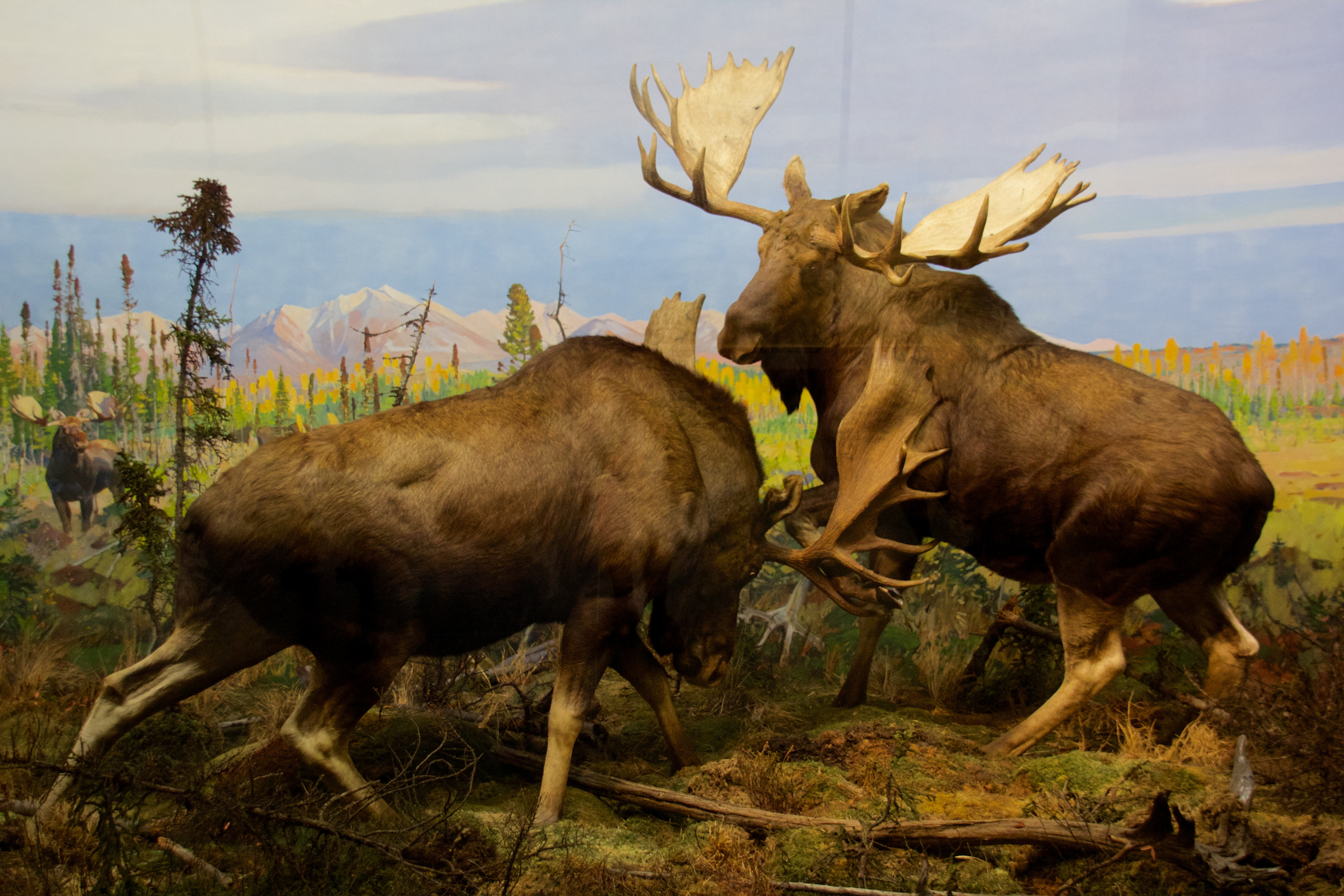 Alaska Moose. Gift of Wilton Lloyd-Smith. At the American Museum of Natural History, New York.